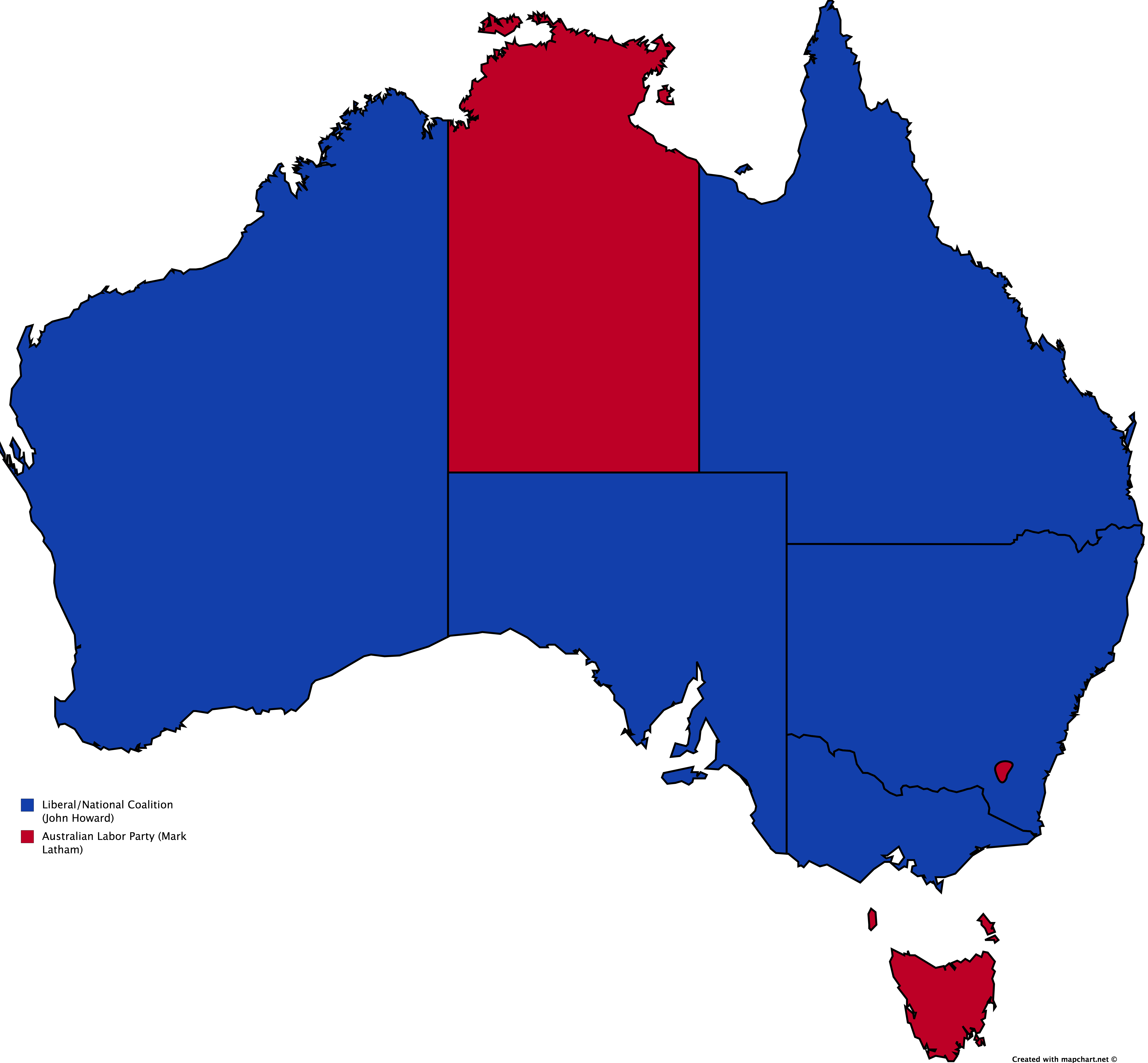 State Results, Popular Vote